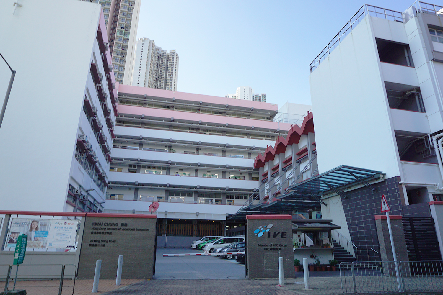 Institute of Vocational Education (Kwai Chung) in Kwai Fong, Hong Kong.